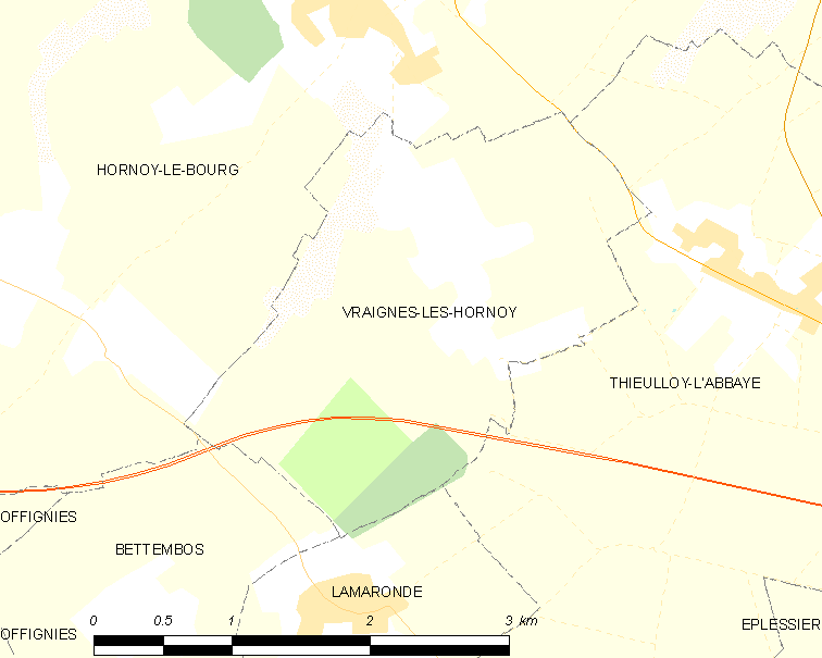 Map of French municipality Vraignes-lès-Hornoy